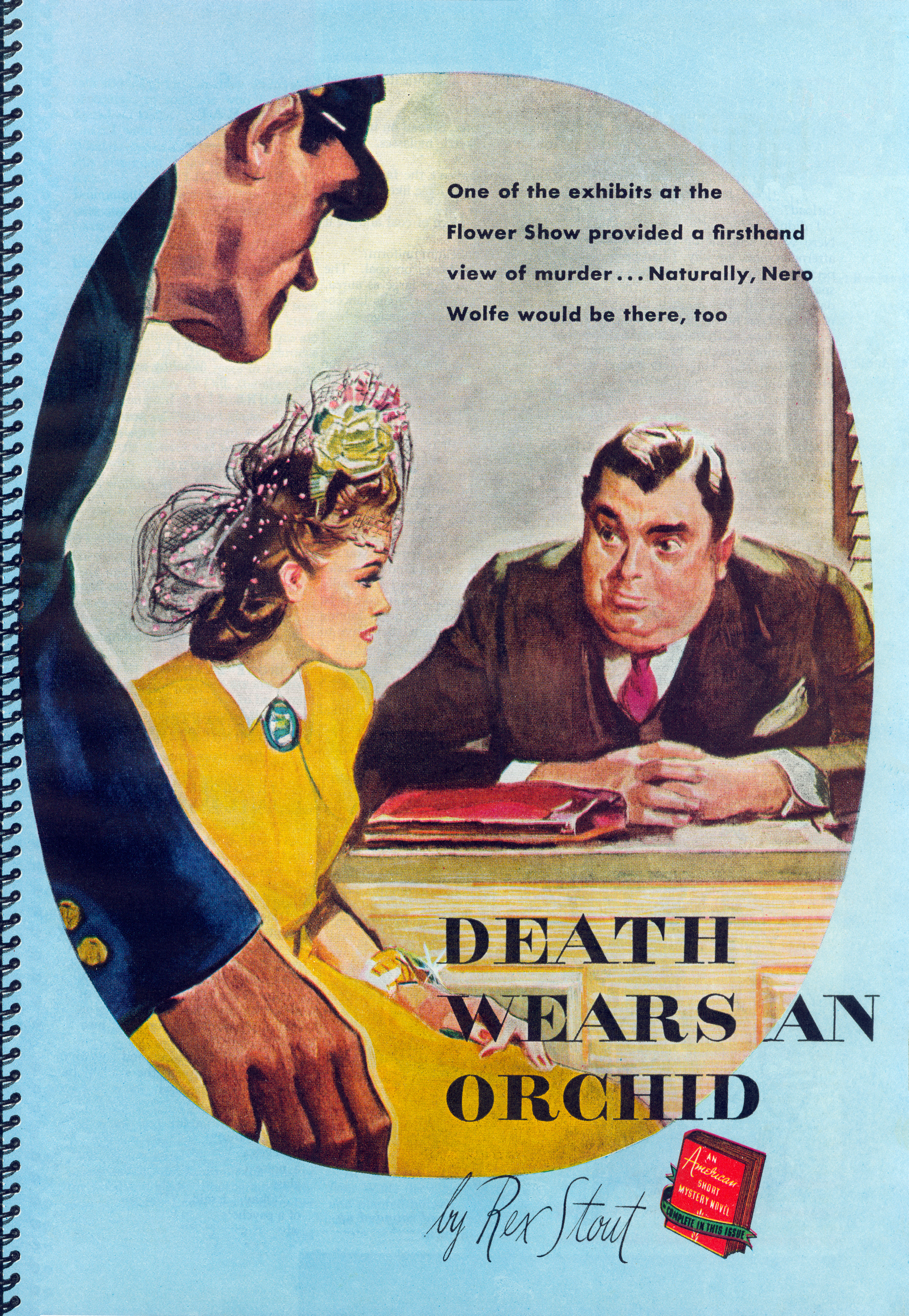 Lead illustration for "Death Wears an Orchid", a Nero Wolfe story by Rex Stout that first appeared in The American Magazine and was subsequently collected in the book Black Orchids (1942) as "Black Orchids"